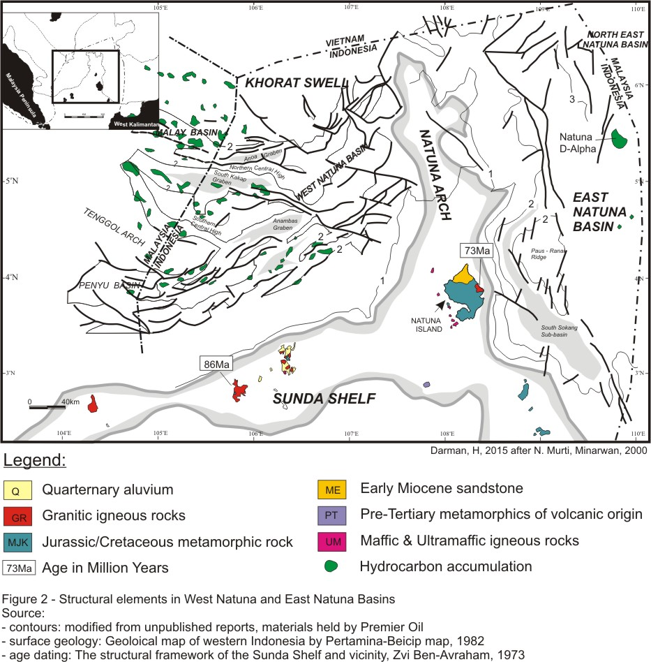 Natuna geological map